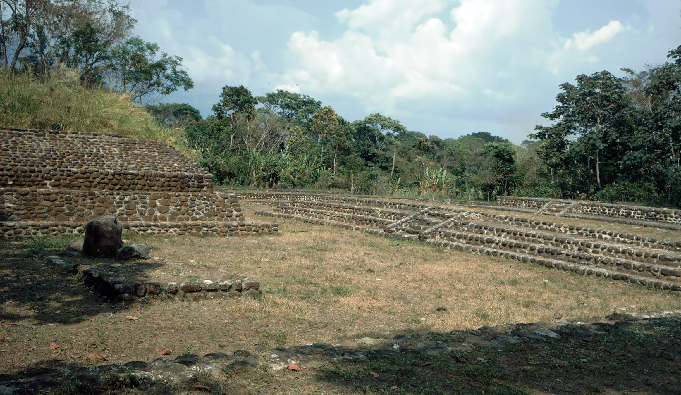 Izapa, Chiapas, Mexico